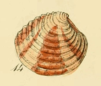 Venus fasciata da Costa, accepted as Clausinella fasciata[1]. From Illustrated Index of British Shells, Plate II., Fig 14.